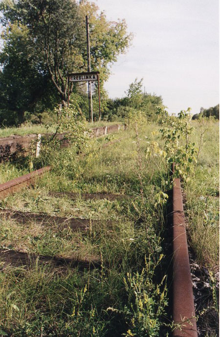 Former railway to Treblinka, beside the camp.